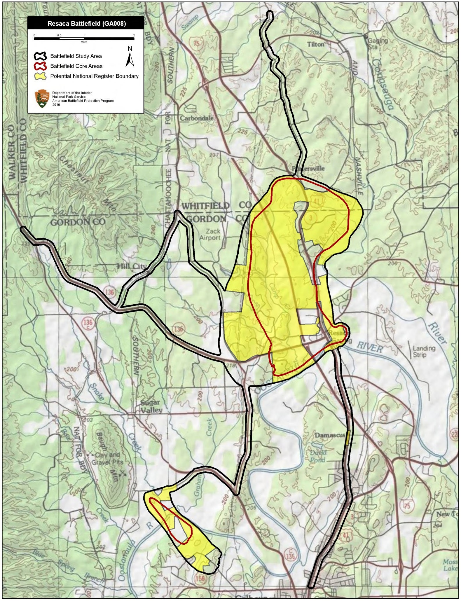 Map of battlefield core and study areas. The revised Study Area includes routes used by the Federal army group as they pursued the Army of Tennessee from Rocky Face Ridge to Resaca. The main Core Area has been adjusted to conform to the heights west of Camp Creek, initially the location of Confederate defensive works and then Federal artillery. A second Core Area to the south of Resaca represents the action and Federal pontoon crossing at Lay’s Ferry, by which the 2nd Division successfully gained the flank of the Confederate position and encouraged Johnston to withdraw.